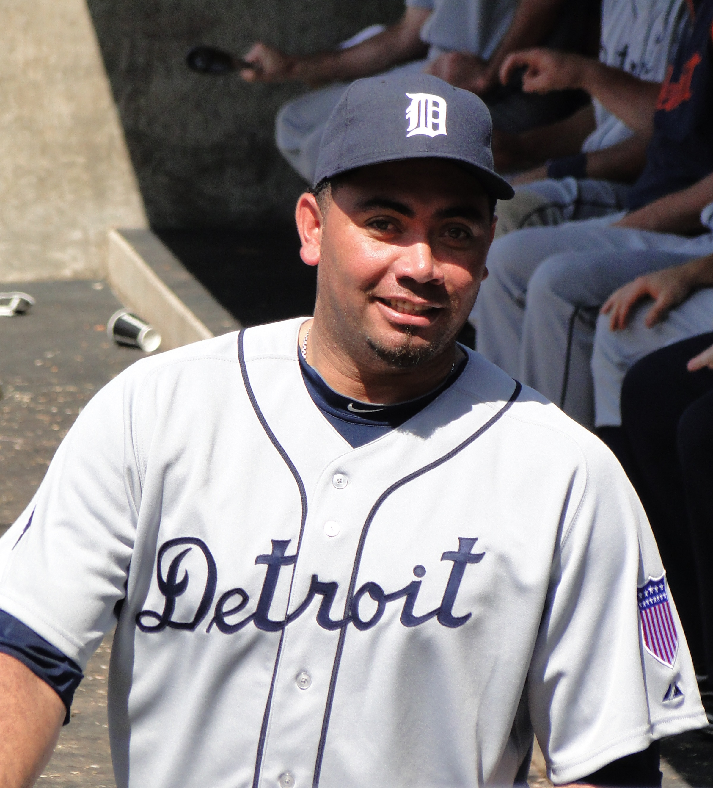 Joaquín Benoit at Dodger Stadium.